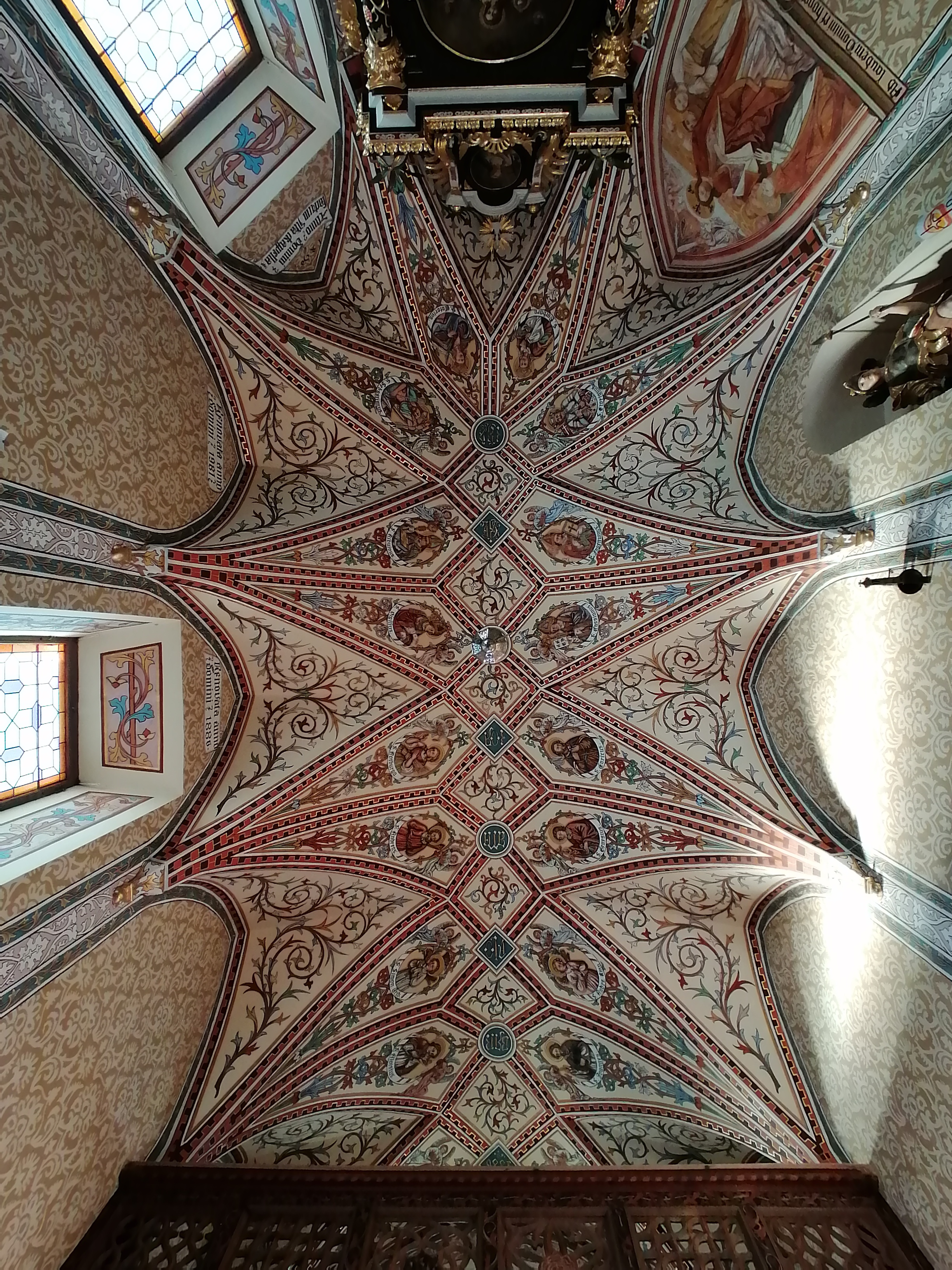 Vault of the church of Santa Barbara in Wengen (South Tyrol)